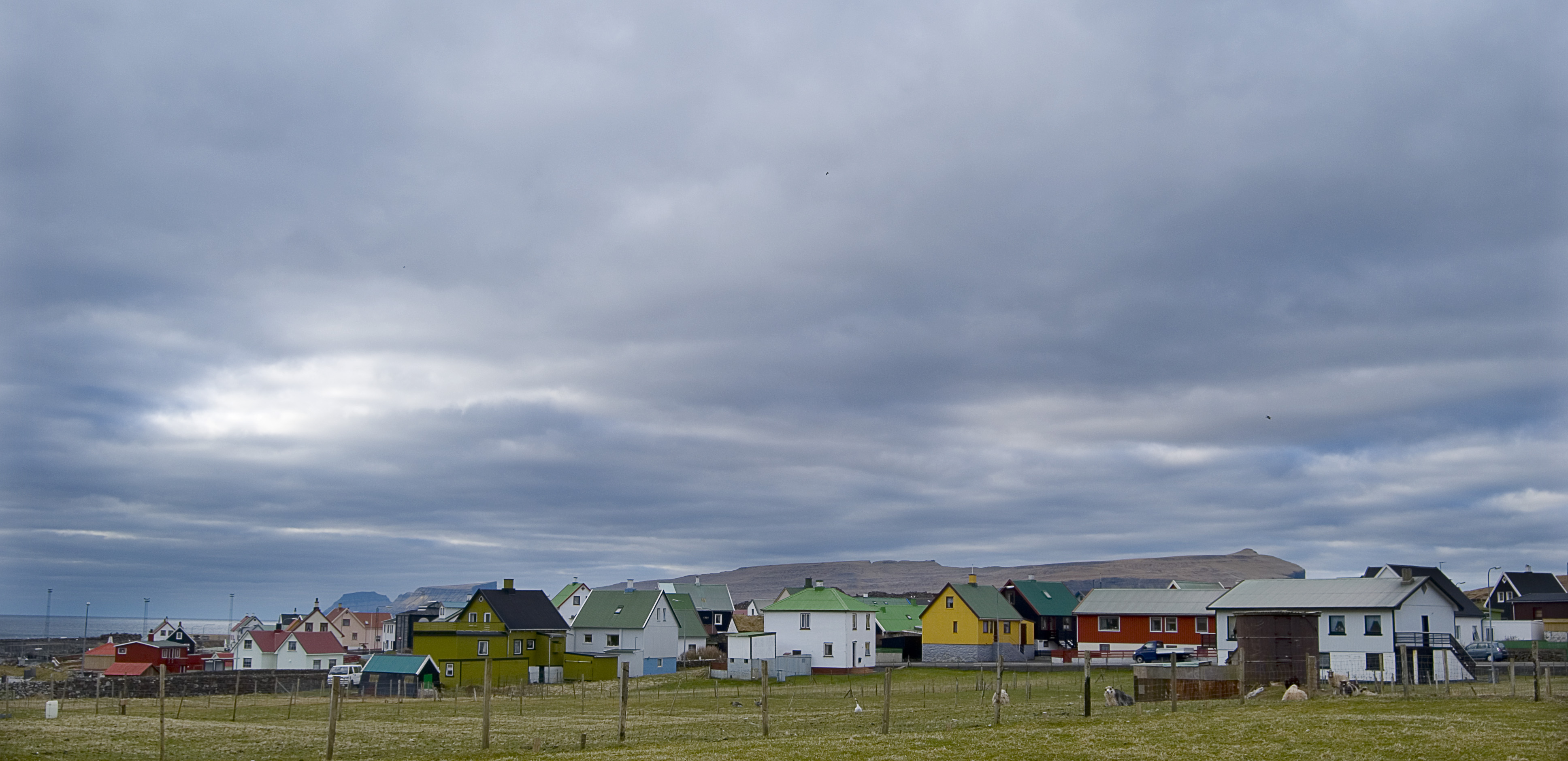 View from the ancient path to the church.